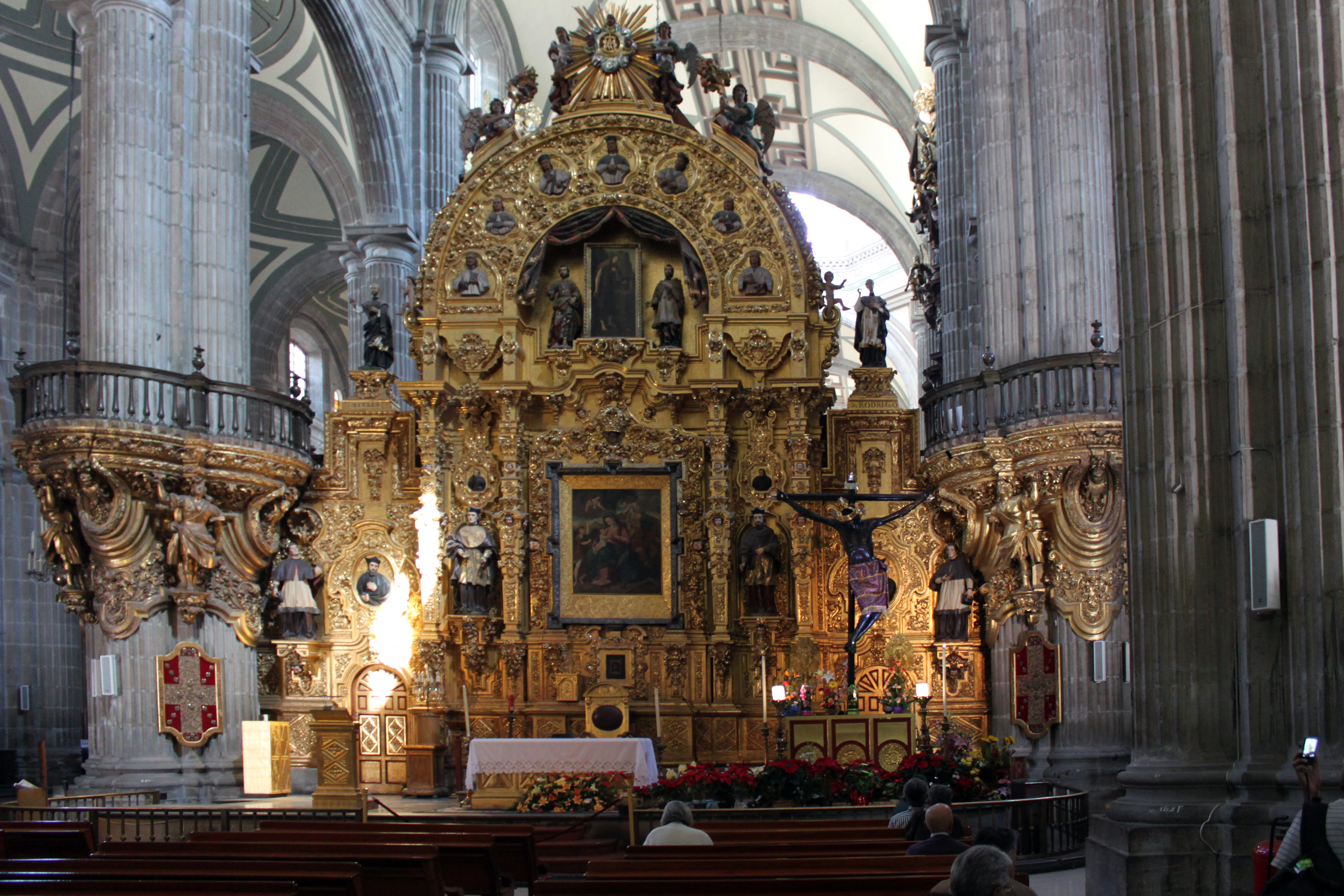 Altar of Forgiveness in the Mexico City Cathedral